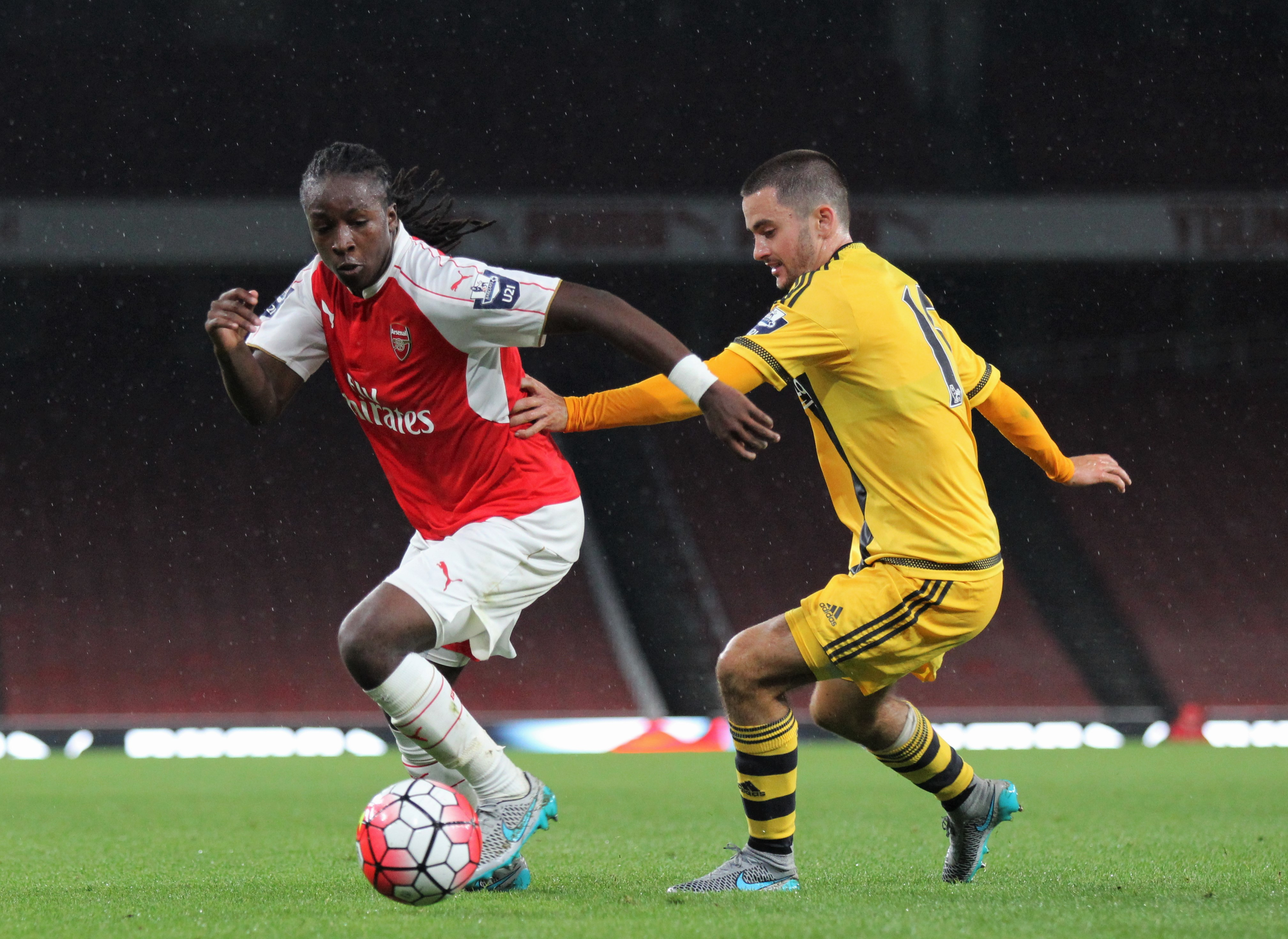 Tafari Moore